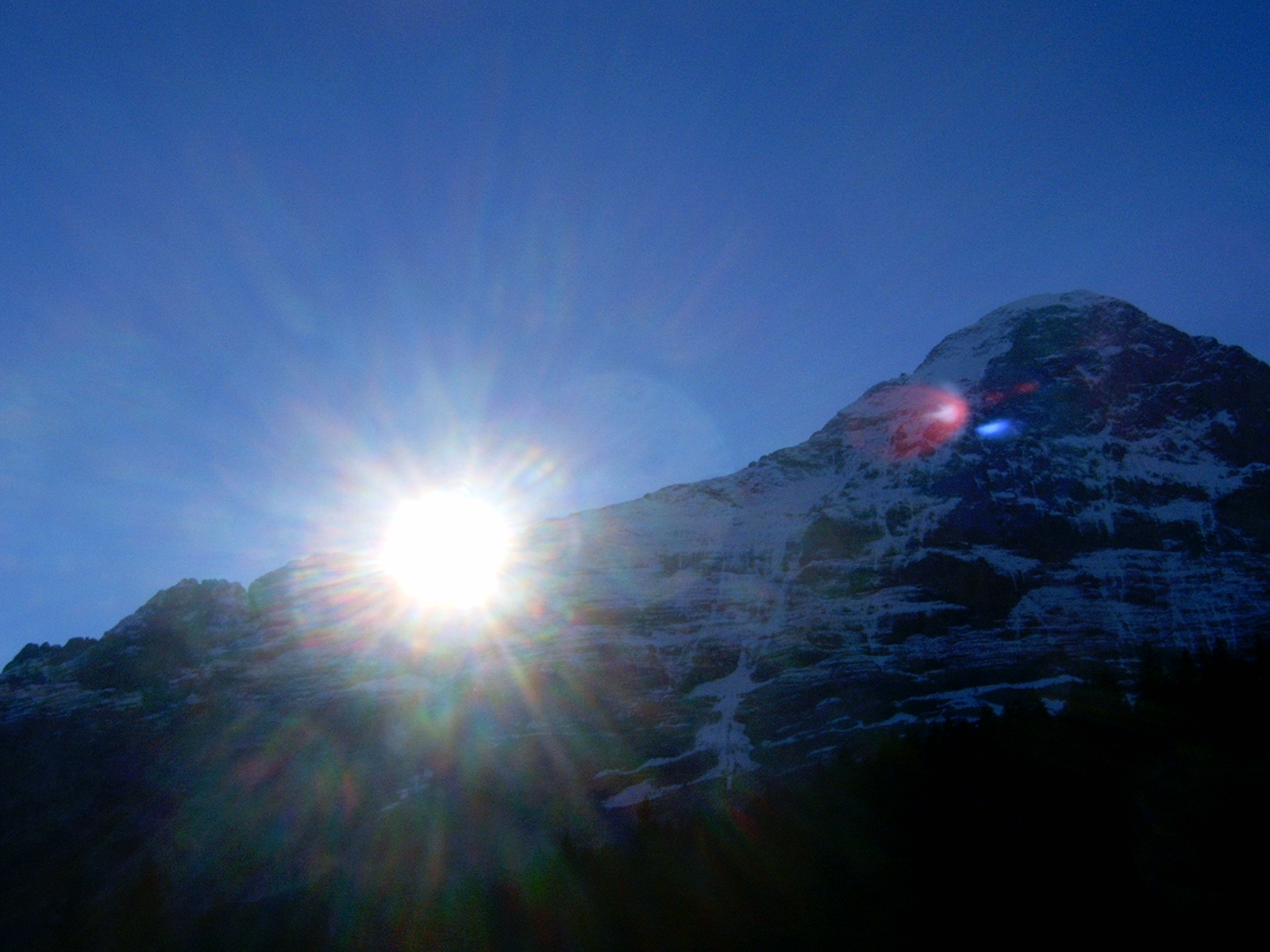 Sunset over the Eiger Mittelegi-Ridge (Northeast Ridge)